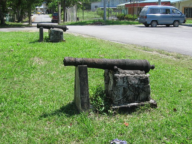 Cannons at Lundu District Office, Lundu Town, Sarawak